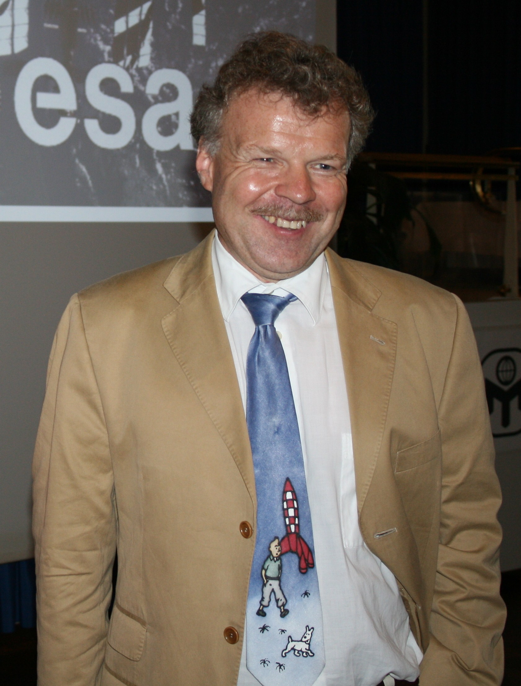 Reinhold Ewald after his lecture “Astronaut‘s Life” in the context of the Forum Mensanum on EMAG 2008 in Cologne.